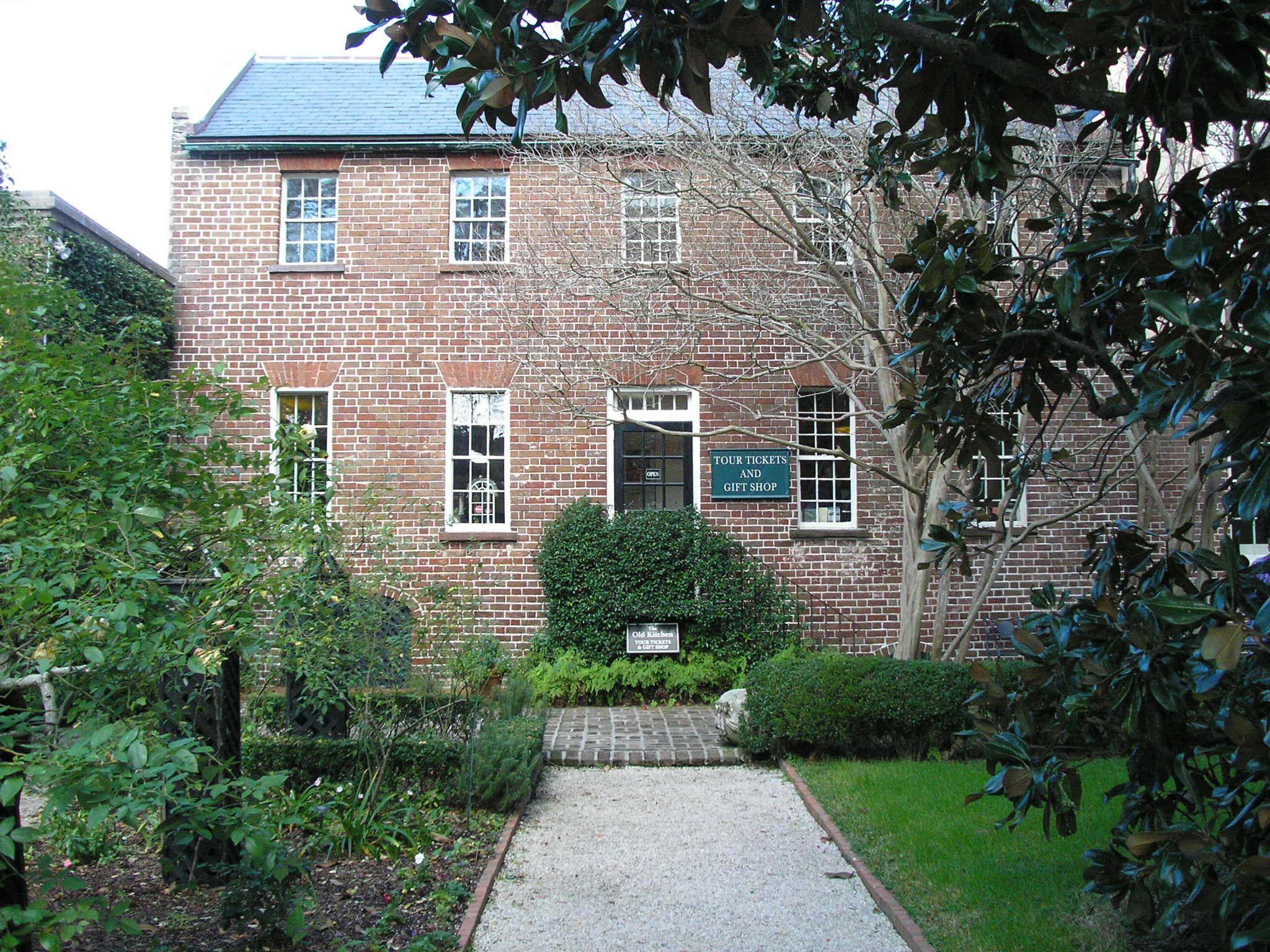 The gift shop of the Nathaniel Russell House in Charleston, South Carolina.